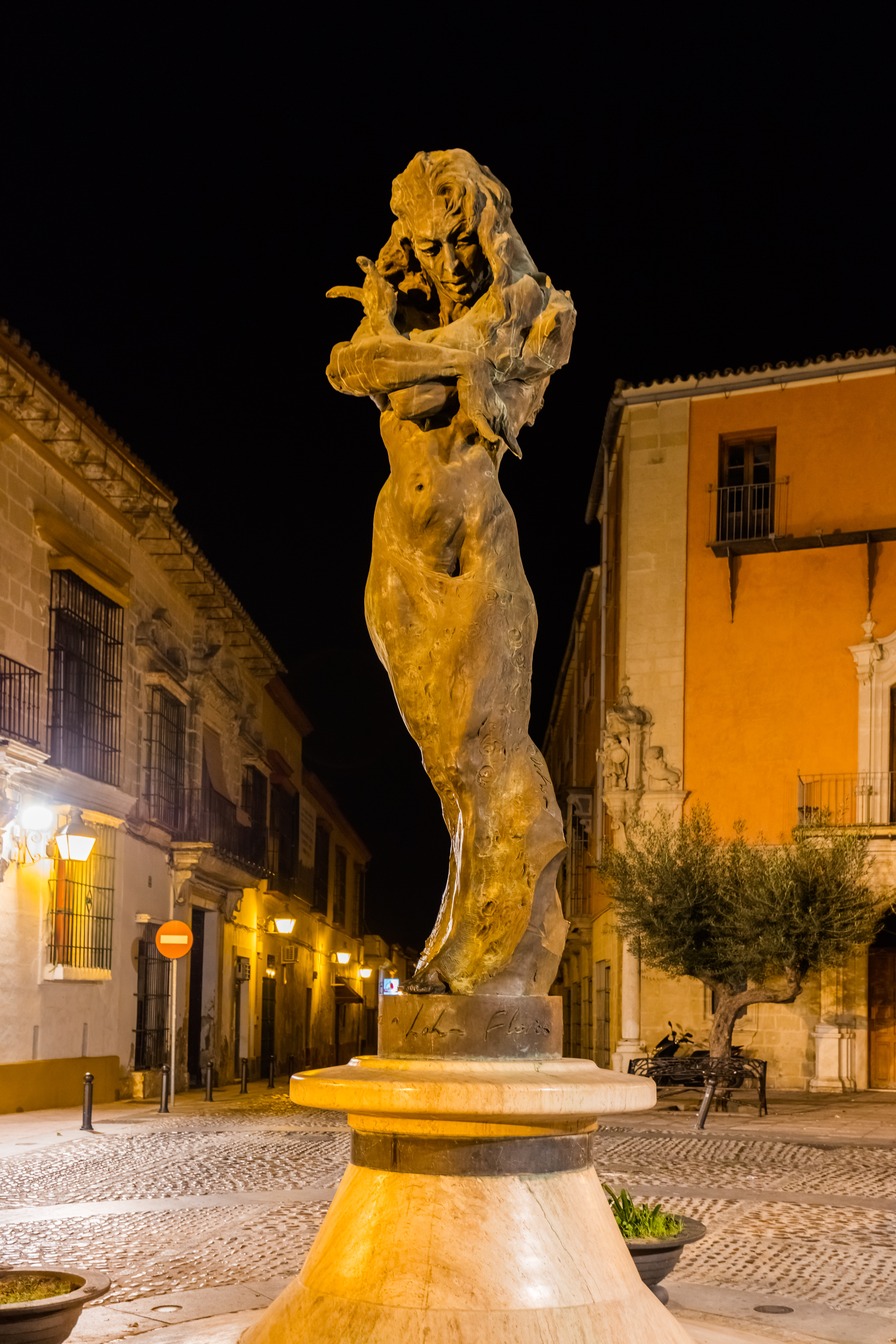 Monument to Lola Flores, Ramón de Cala St, Jerez de la Frontera, Spain